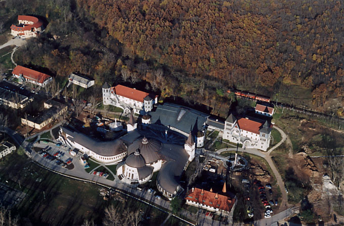 University - Piliscsaba - Hungary - Europe